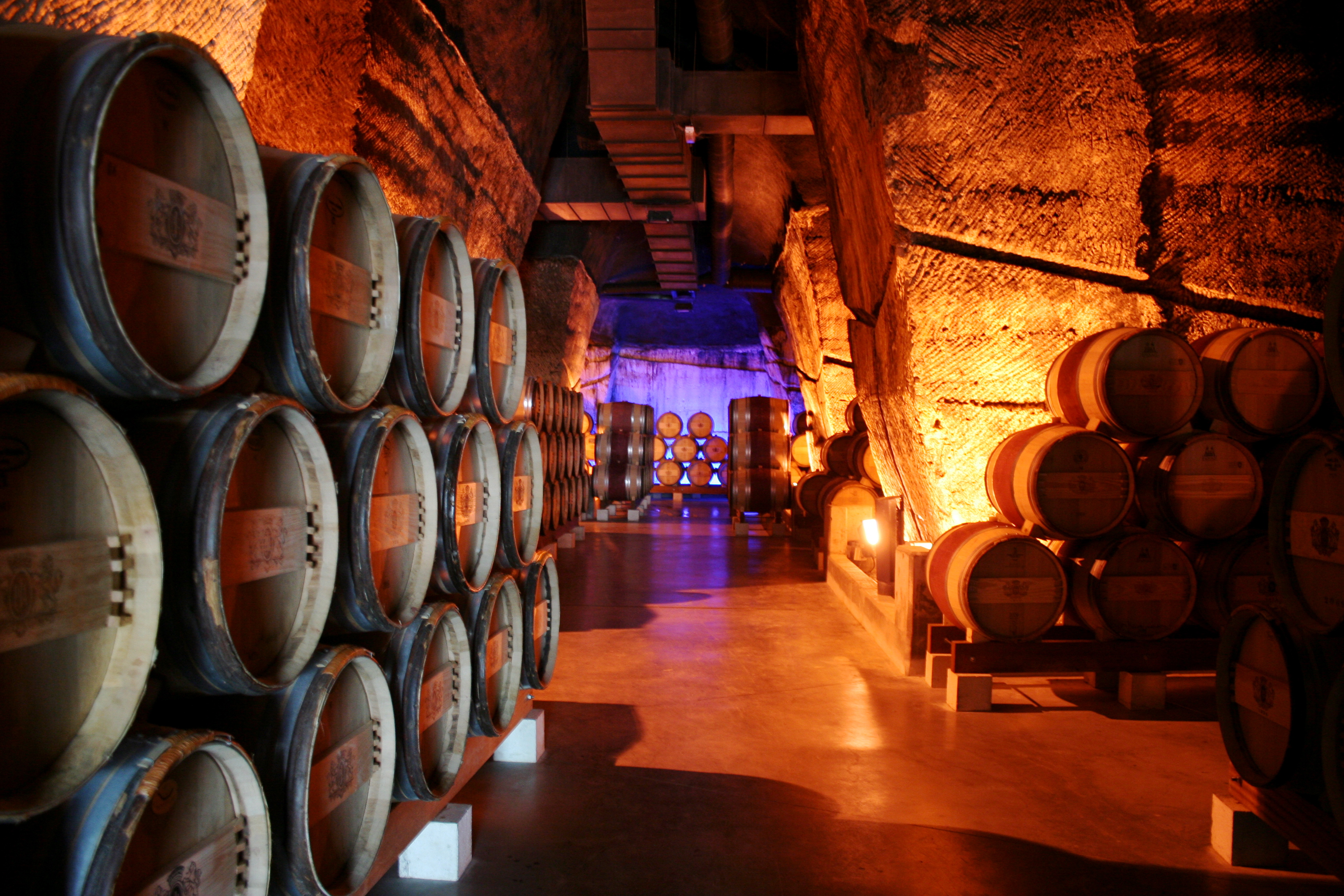 Rhône Valley - Maison Paul Jaboulet Aîné Vineum